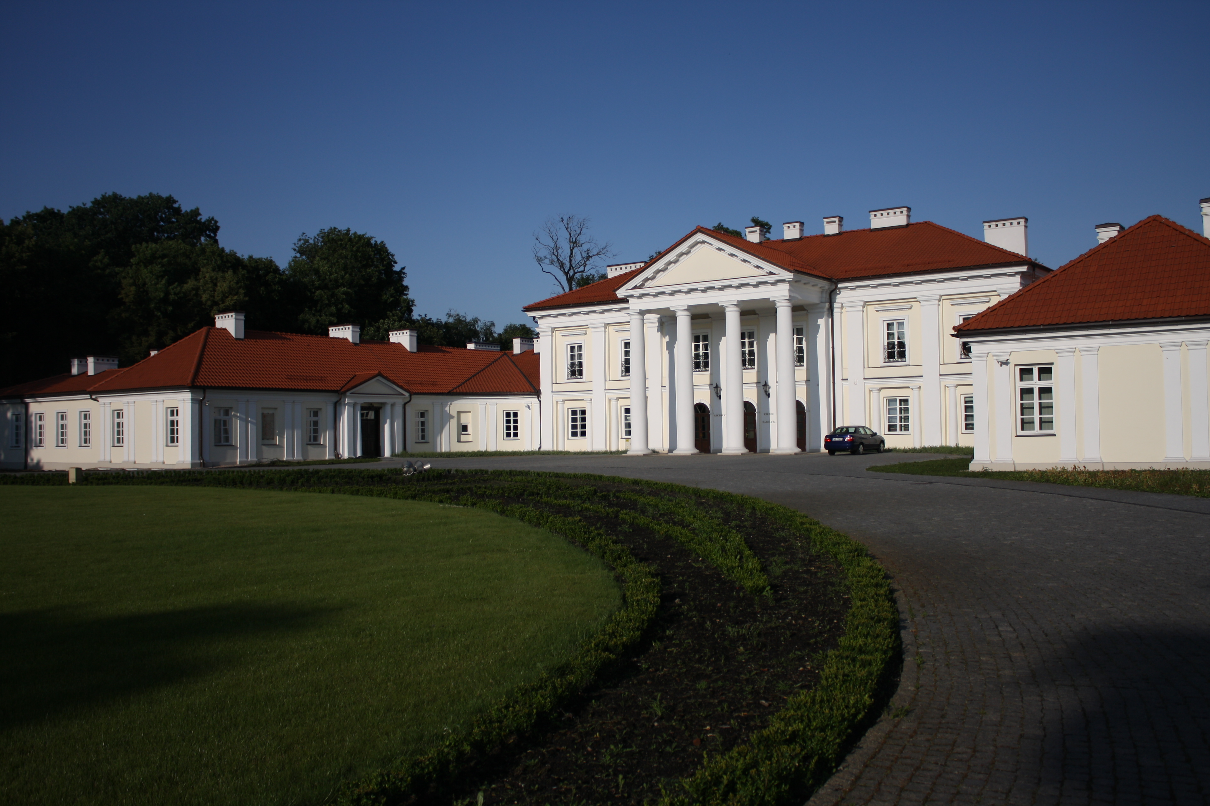 Palace of Family Oginski in Siedlce, nowadays seat of the Univesity of Podlasie